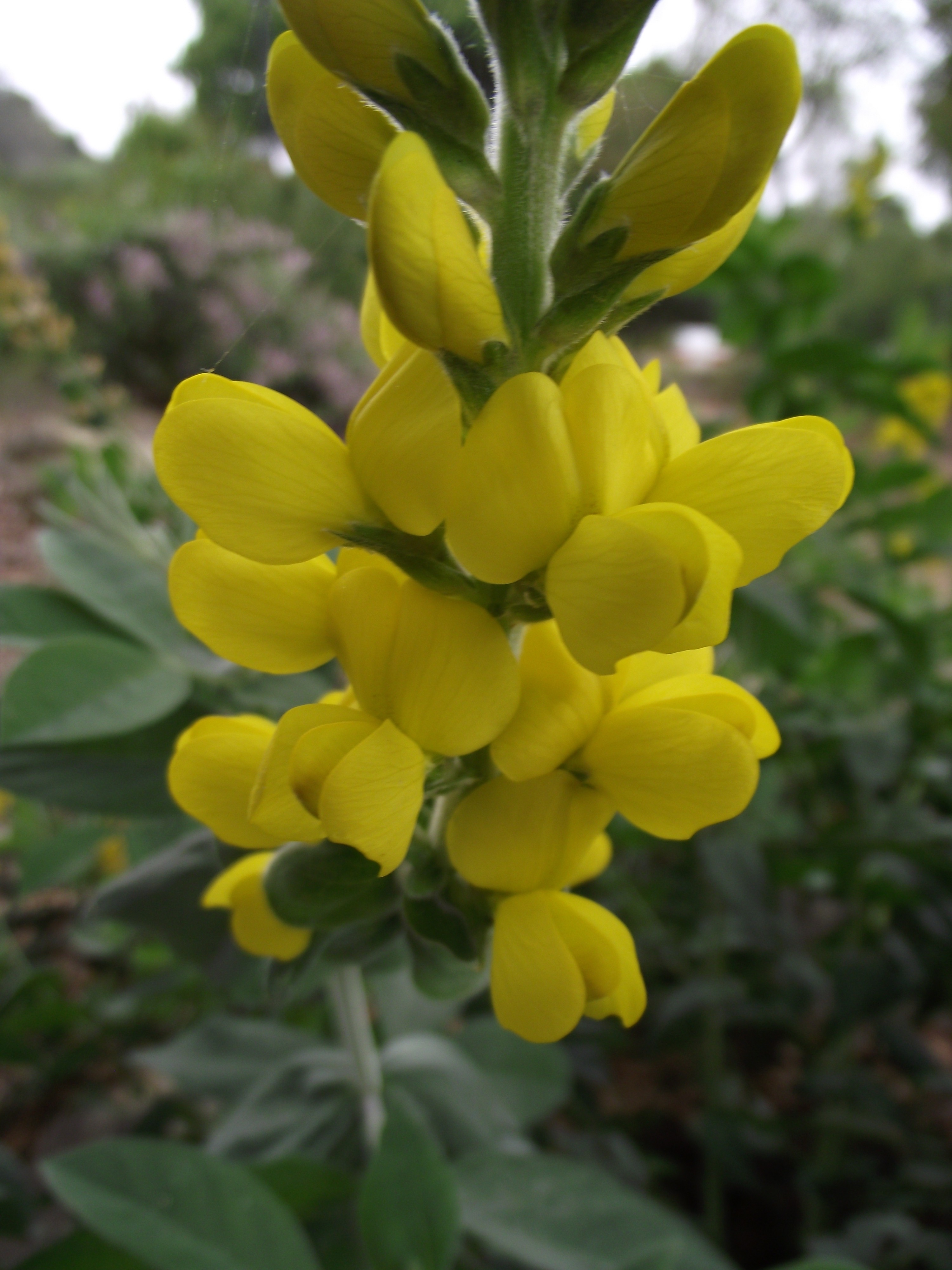 Thermopsis macrophylla (Santa Ynez Goldenbanner). Cultivated at the Santa Barbara Botanic Garden, in Santa Barbara, California, where identified by sign.